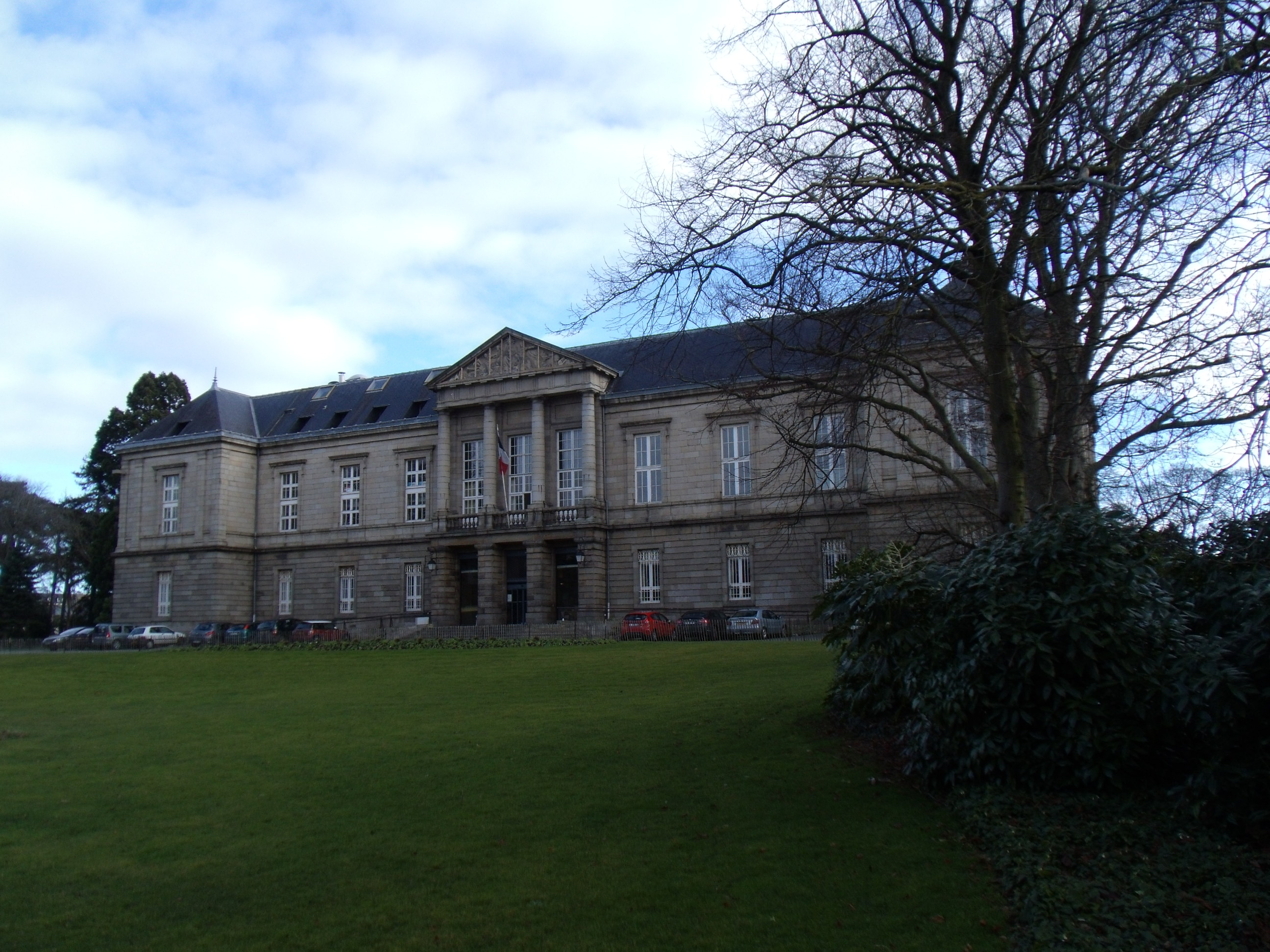 The Court house in Saint-Brieuc in January 2011